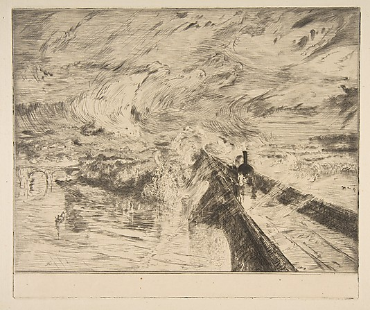 Copy (etching) of Willima Turners 'Rain, speed and speed'